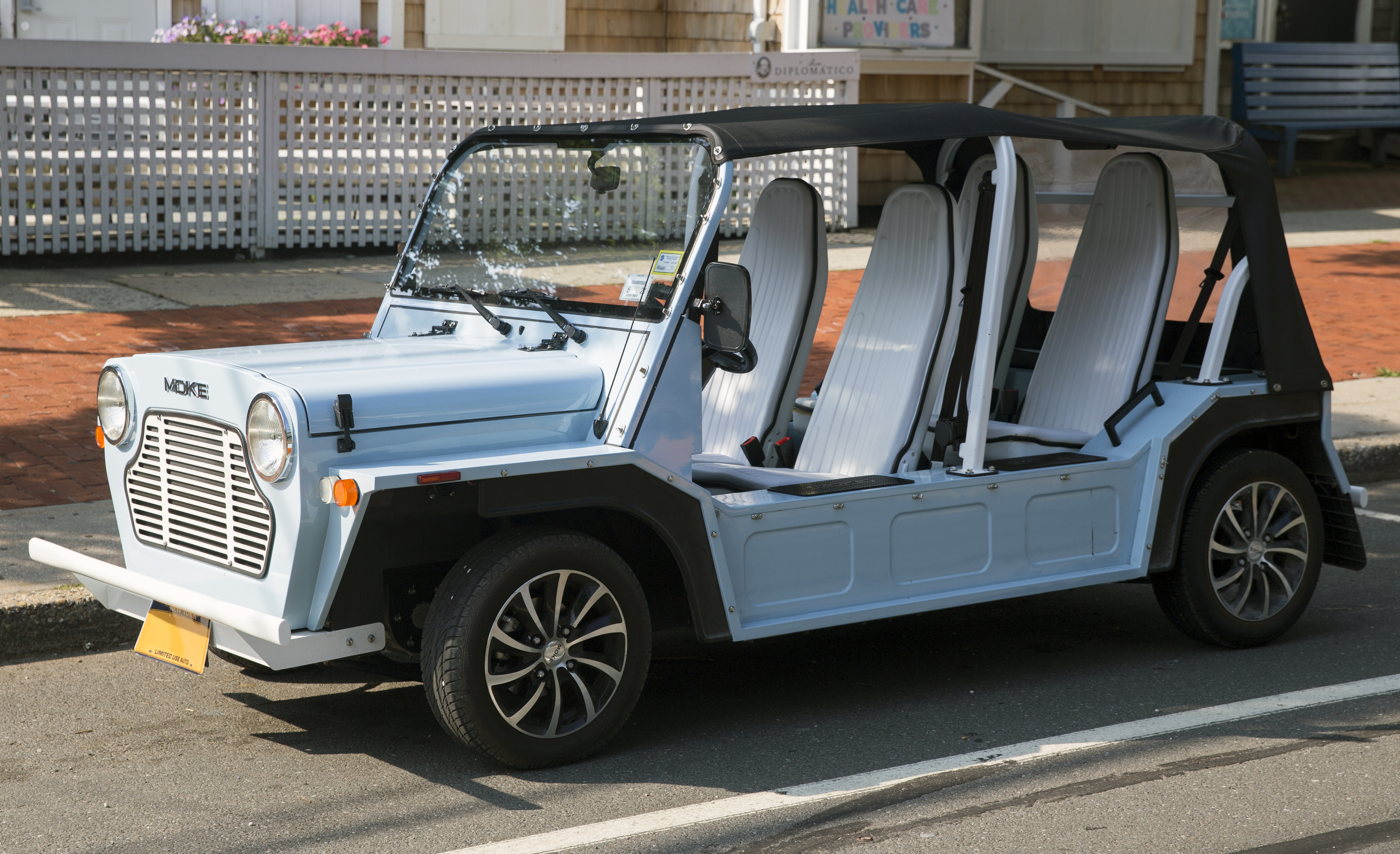 2019 eMoke by Cruise Car Inc. A Chinese Low Speed Vehicle assembled in Sarasota, FL, and designed to look a bit like a Tonka Moke. Limited to 25mph top speed.